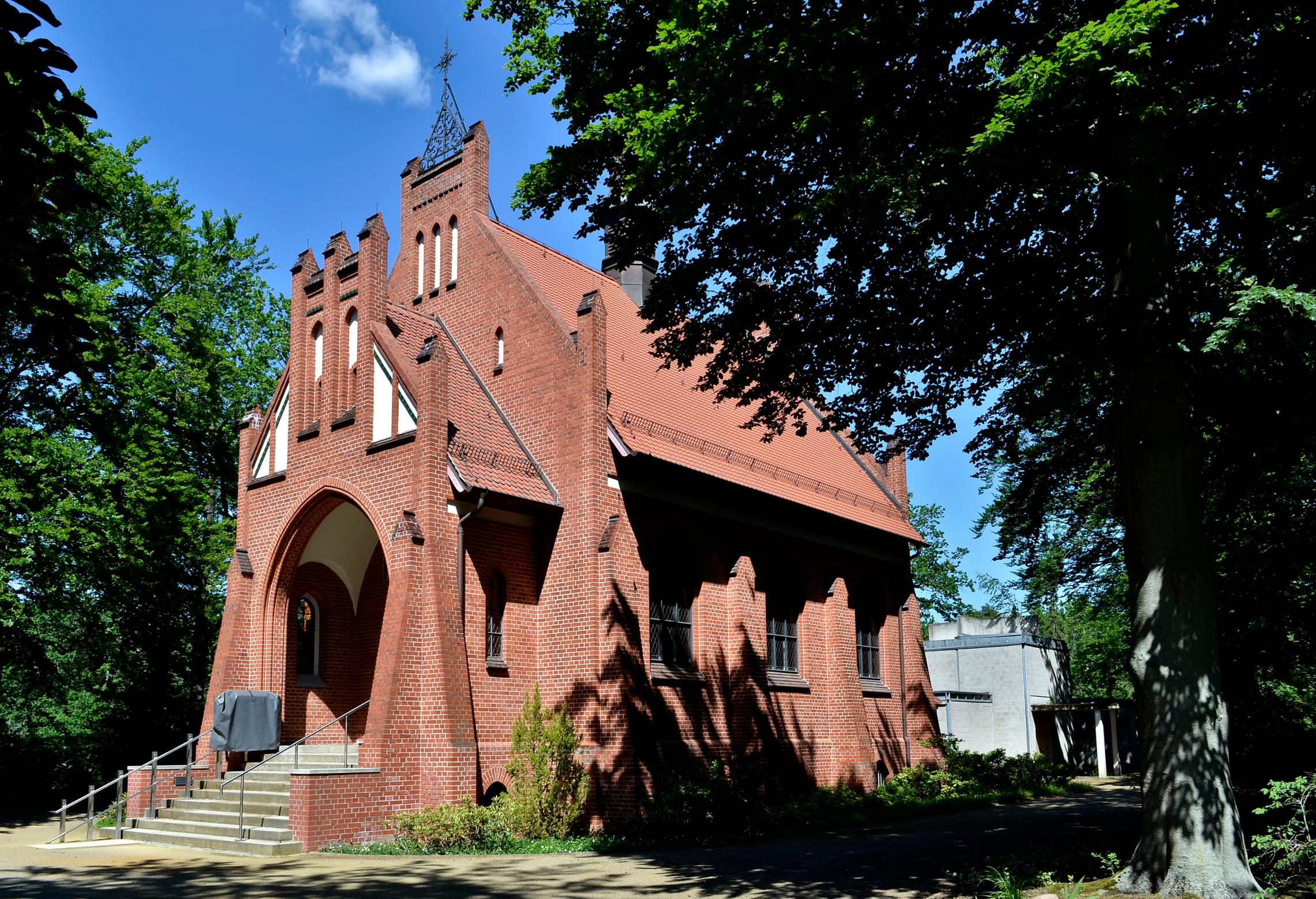 Feierhalle (mortuary) of Südfriedhof in Cottbus-Madlow.